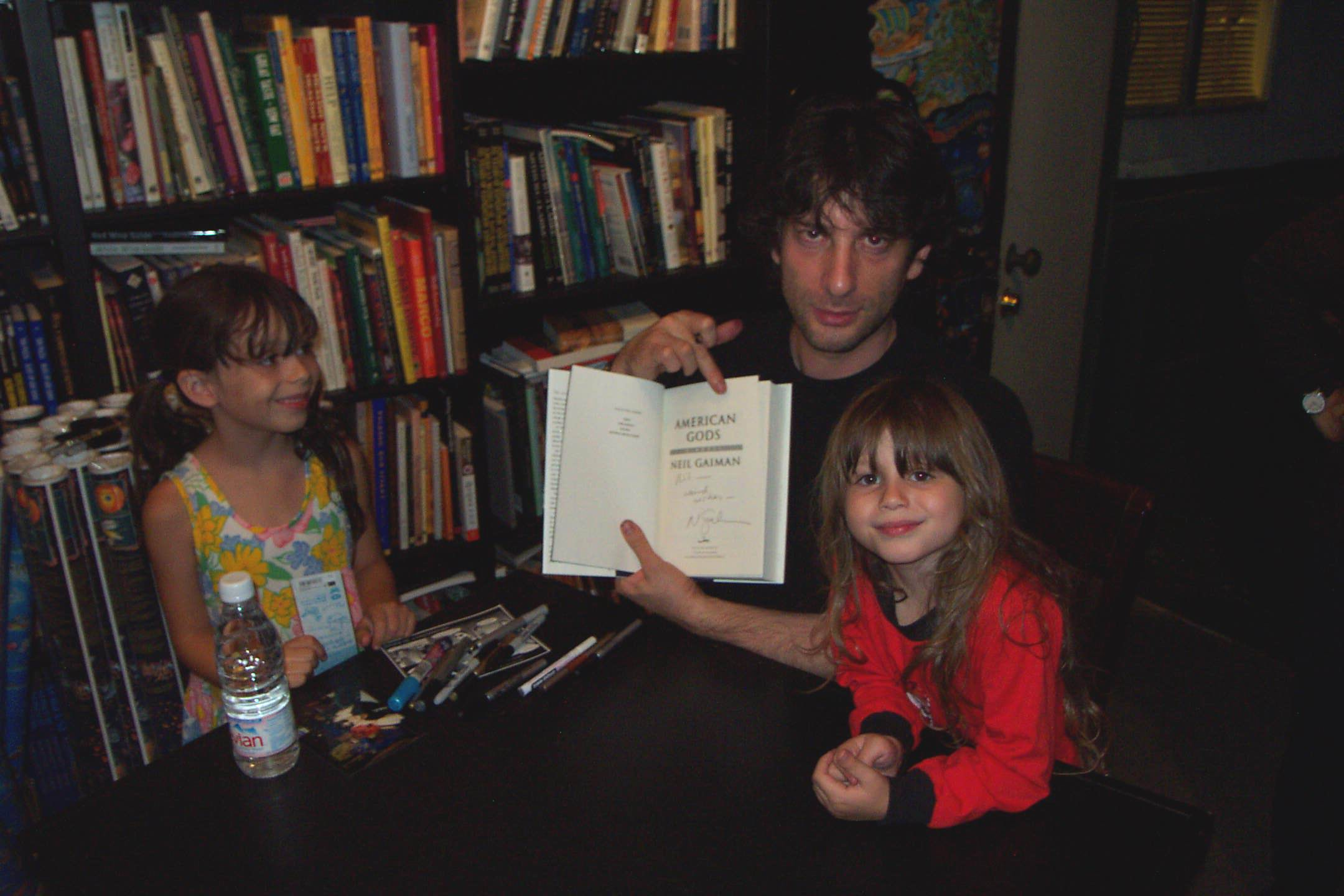 Neil Gaiman with the copy of "American Gods" I got for him to sign for my buddy Wil at a signing at Bouk Soup in '01. As Wil pointed out, Neil is flipping off the book.